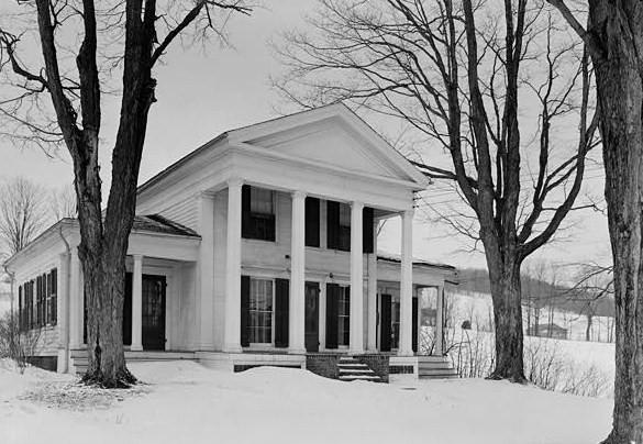 Cyrus Gates House, Old Nanticoke Road, Maine vicinity (Broome County, New York) cropped